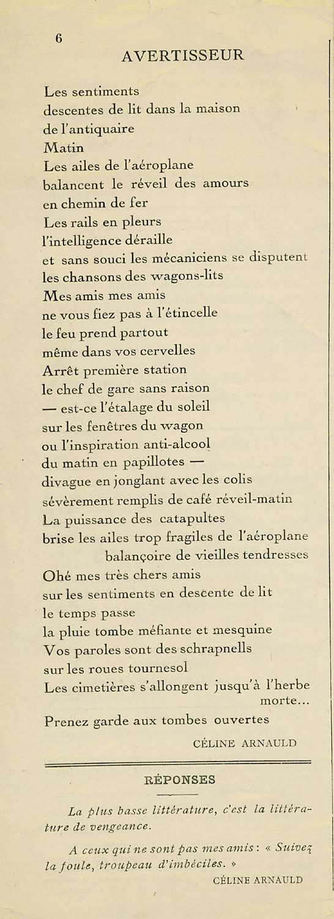 A page from the Dada journal "Z" (issue 1), published in Paris, containing a poem and a satirical "response" by Celine Arnauld.